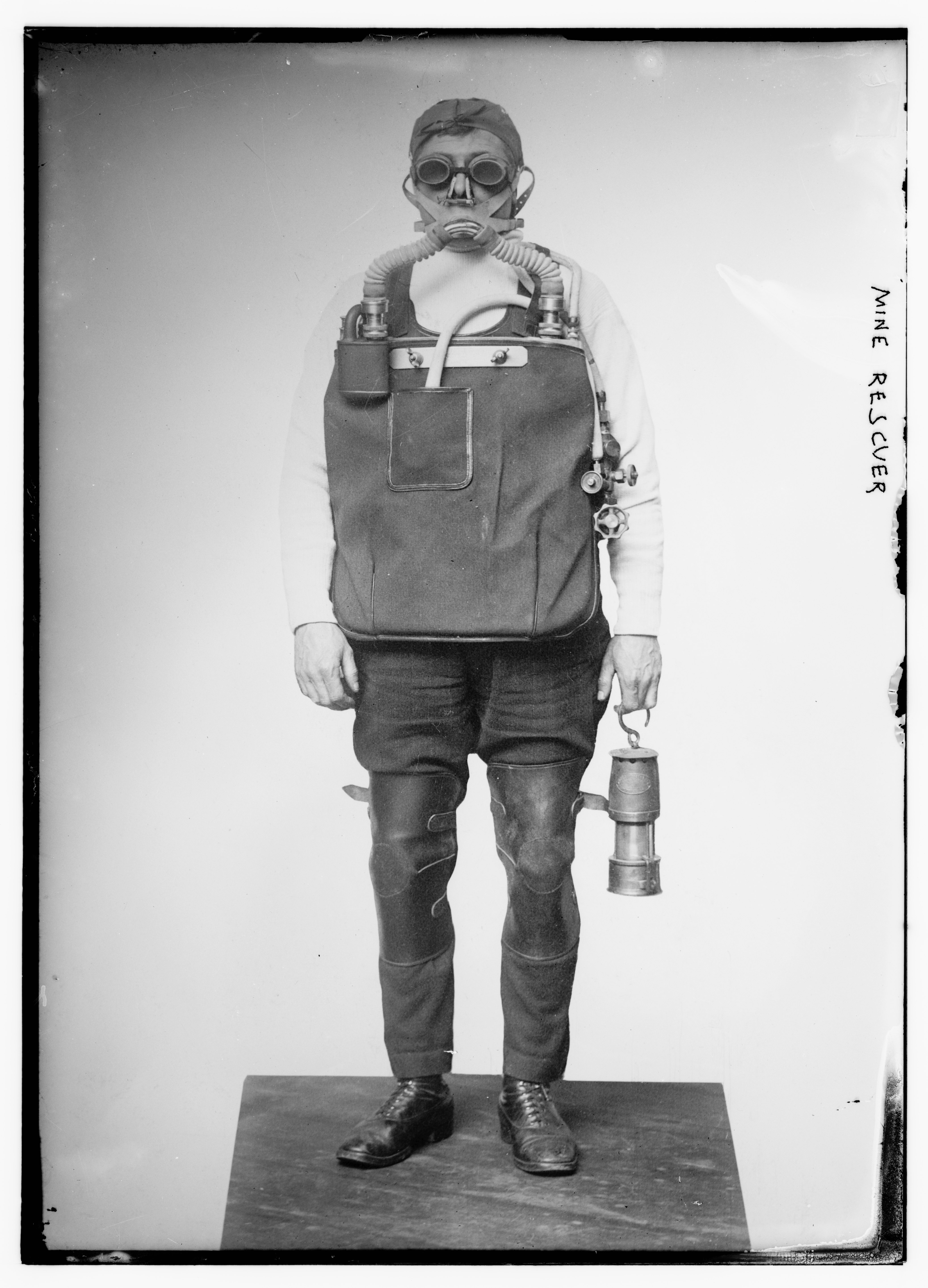 Title: Mine rescuer Abstract/medium: 1 negative : glass ; 5 x 7 in. or smaller.